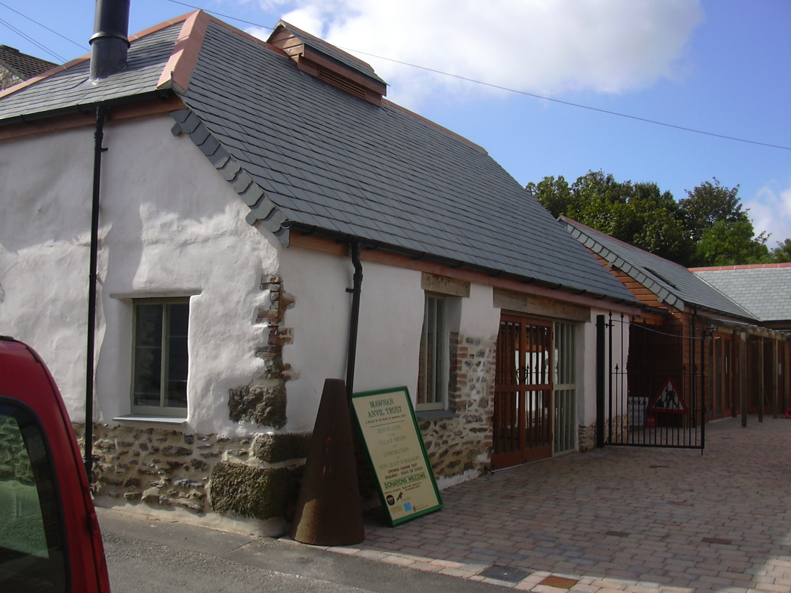 Smithy at Mawnan Smith, refurbished and re-opened